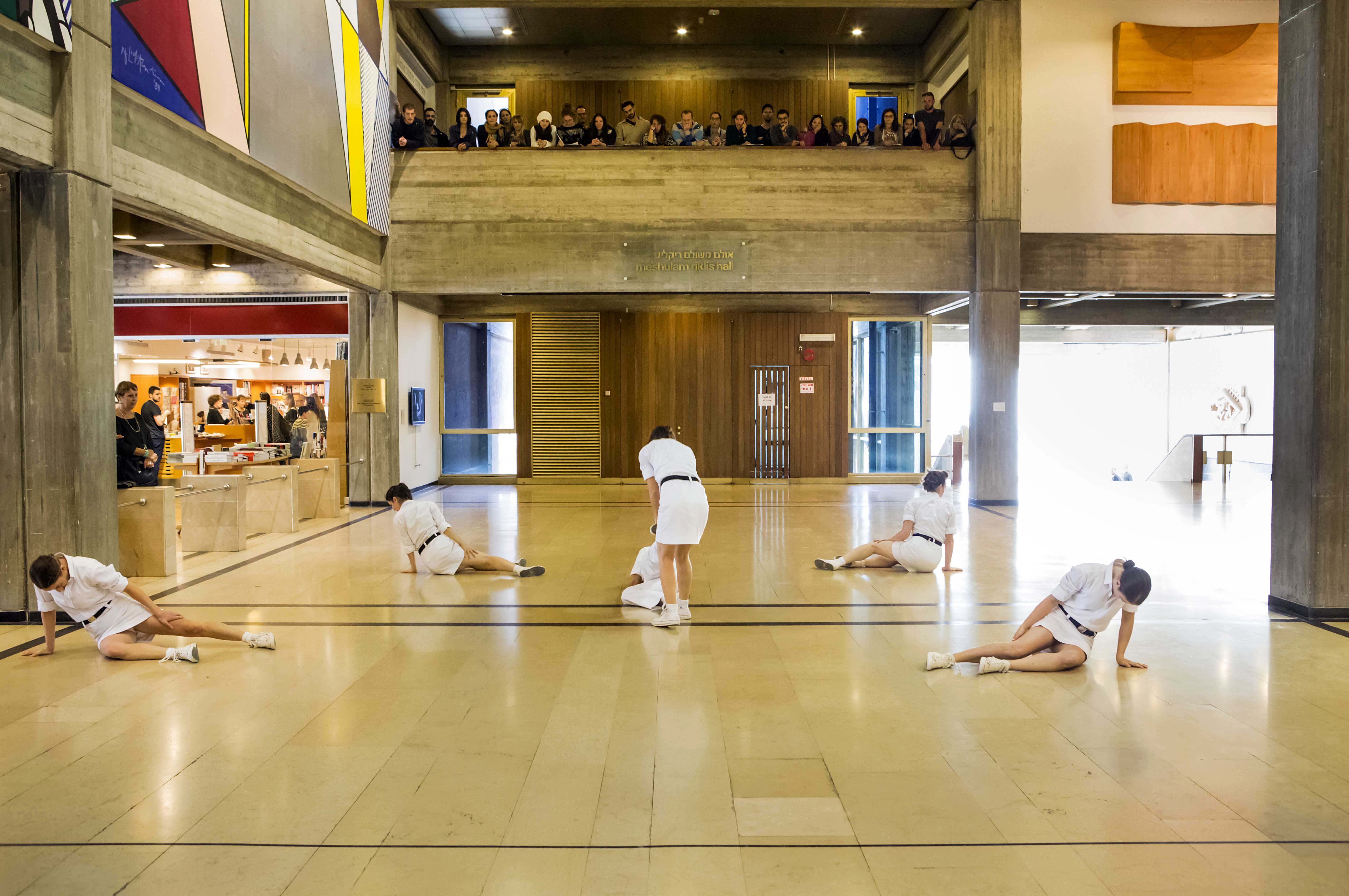 National Collection was Public Movement's durational solo exhibition, performed in the Tel Aviv Museum of Art in 2015 and curated by Ruti Direktor